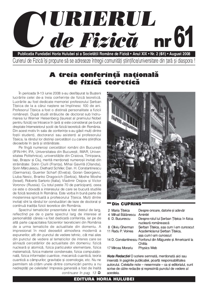 Curierul de Fizică (short CdF), newsletter published by the Horia Hulubei Foundation and the Romanian Society of Physics: front page of issue 61 (August 2008).